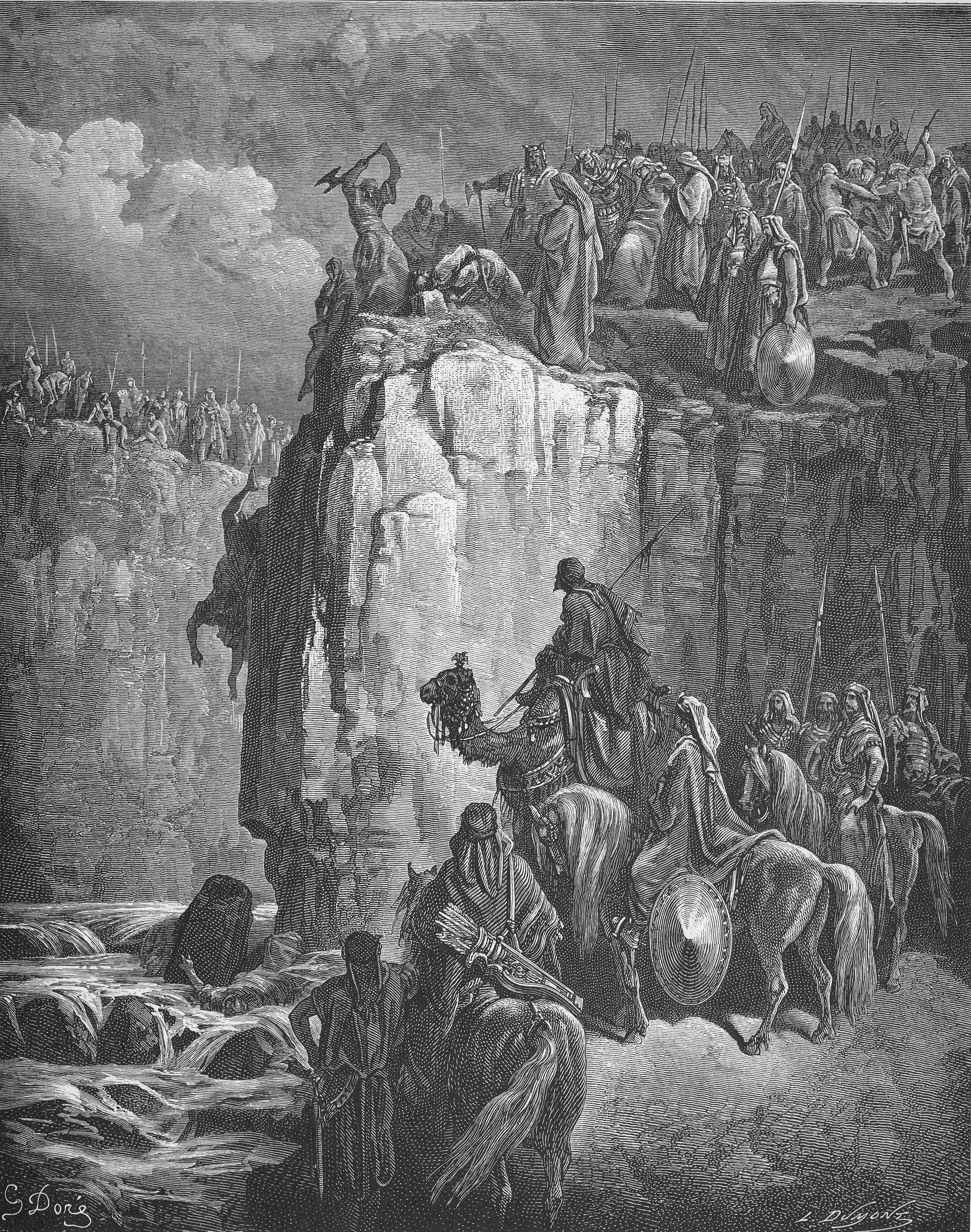 The Prophets of Baal Are Slaughtered (1Kings 18:20-40)